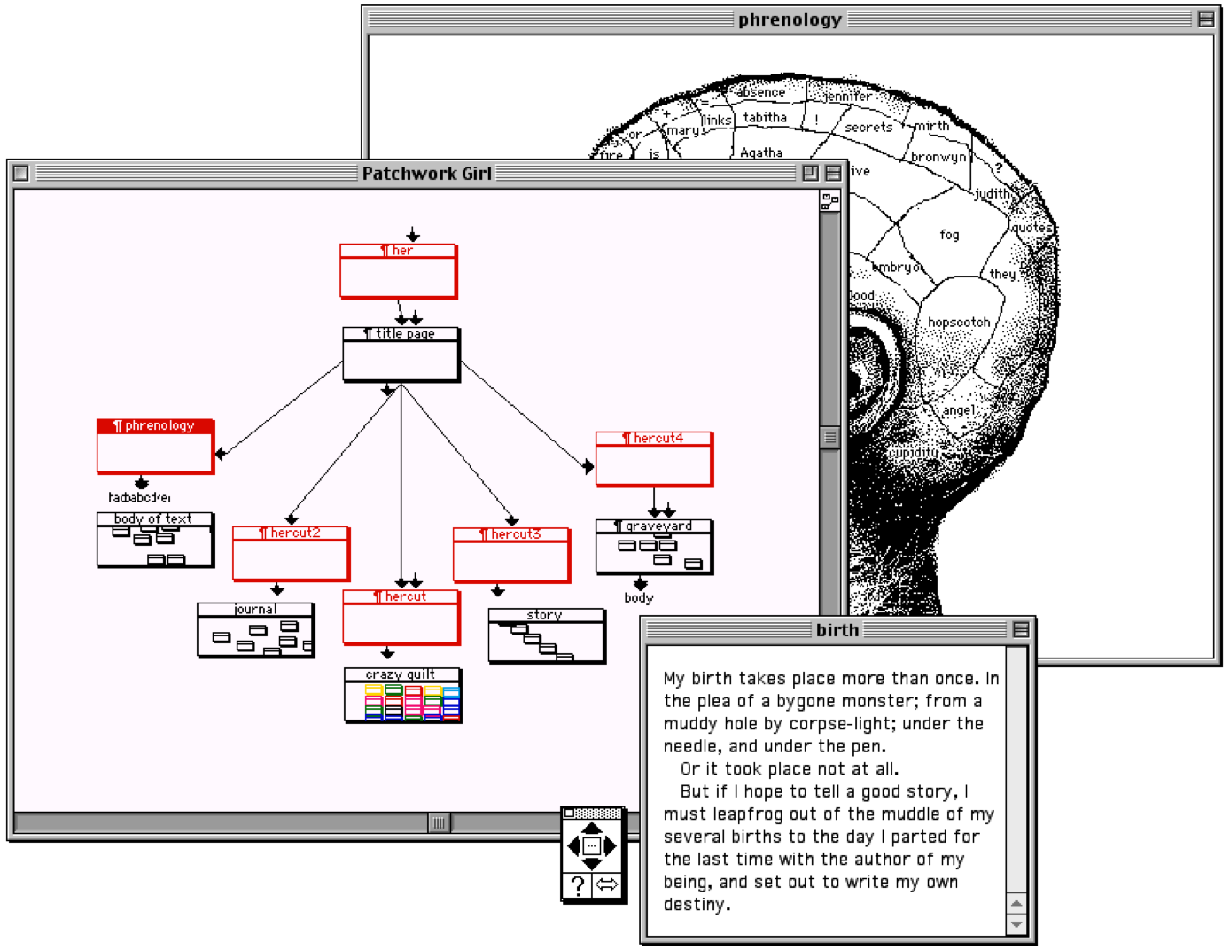 An image showcasing the branching structure of hypertext in Shelley Jackson's Patchwork Girl.